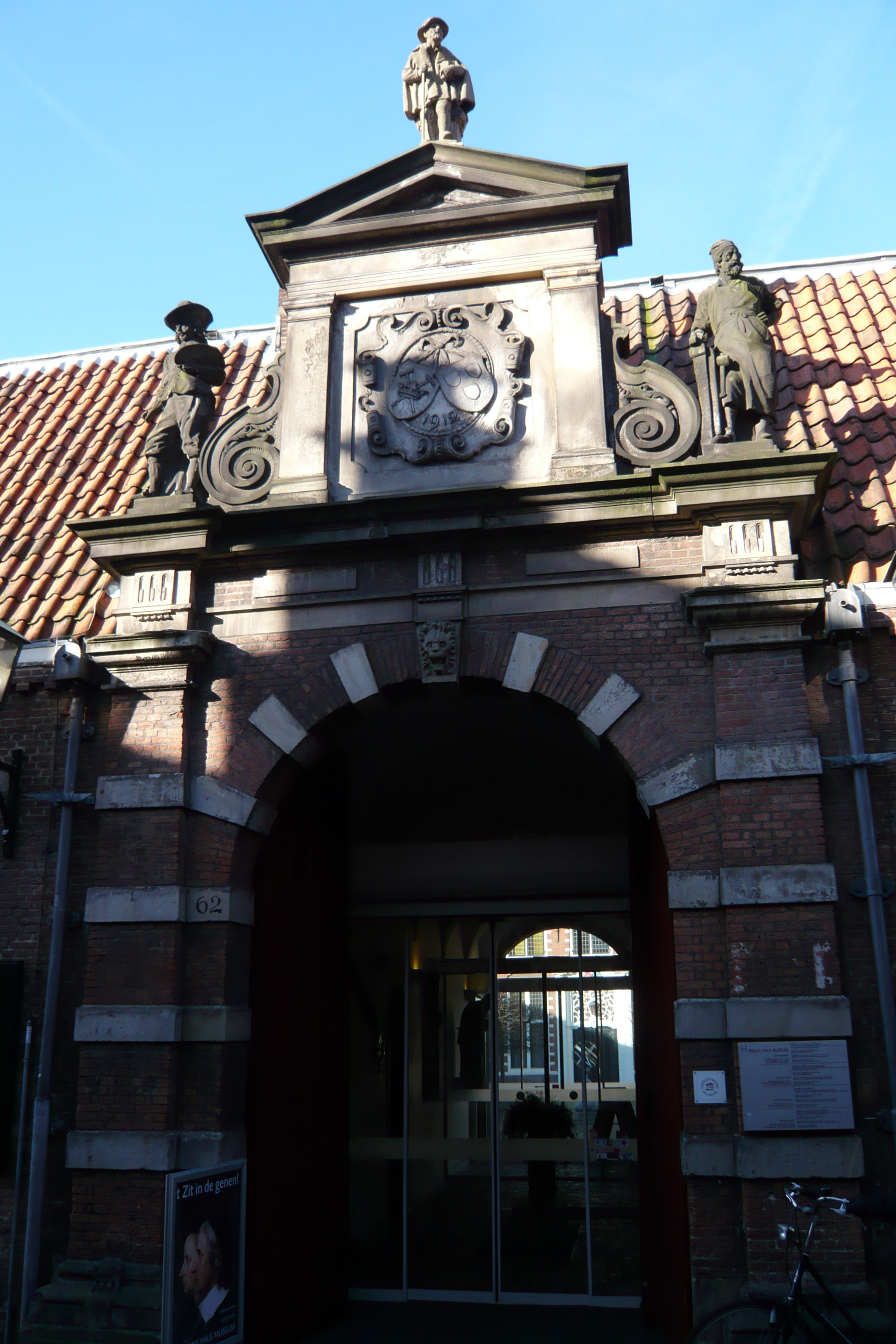 Front gate and entranceway to Oudemannenhuis, Haarlem. Current location of the Frans Hals Museum of Art. Above the doorway a replica of the original statue of an old man holding a "poorbox", or alms box, used to beg. The original statue is inside the inner entranceway.